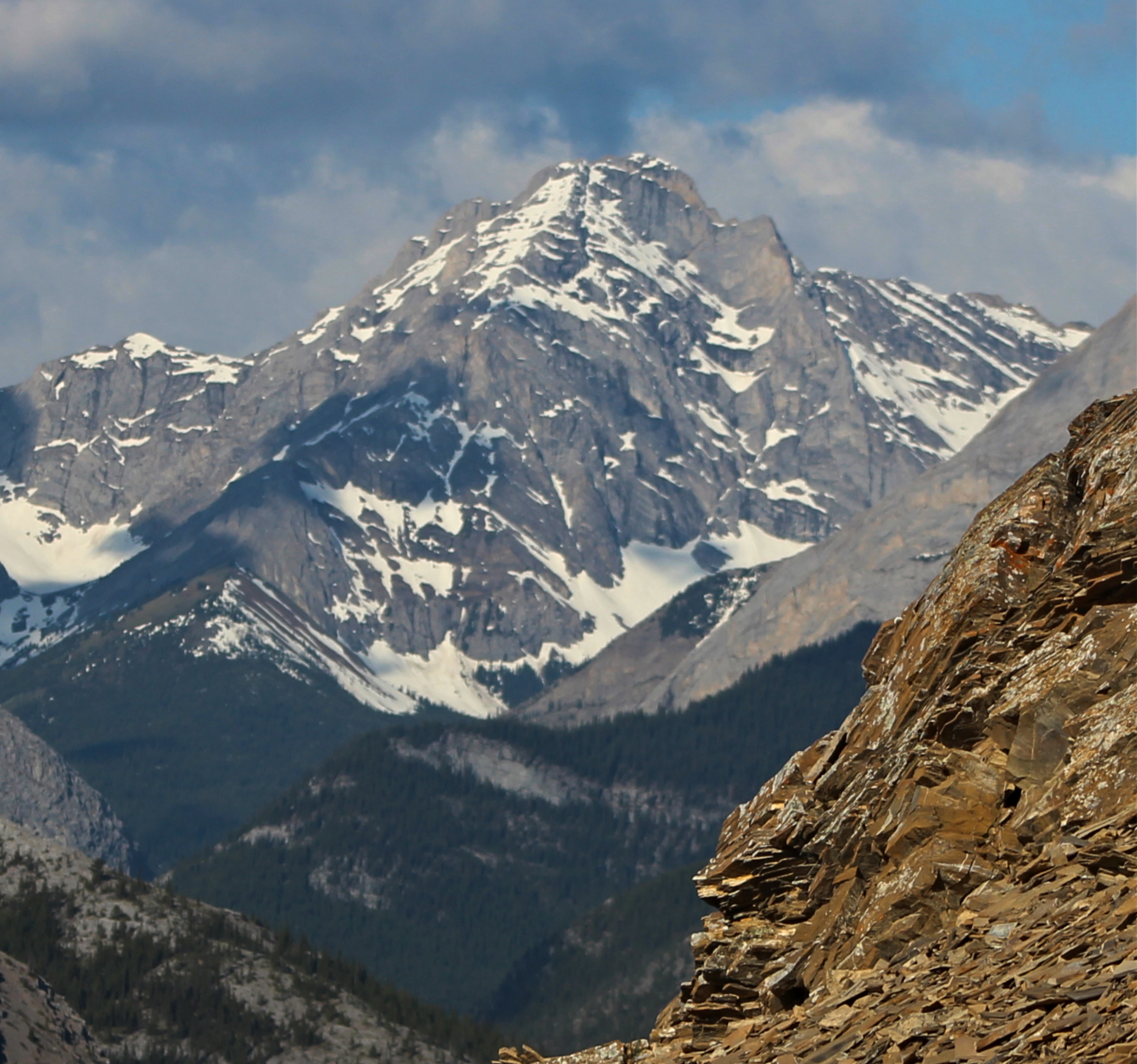 Mount Brock seen from Nihahi Ridge. Kananaskis Country, Canada